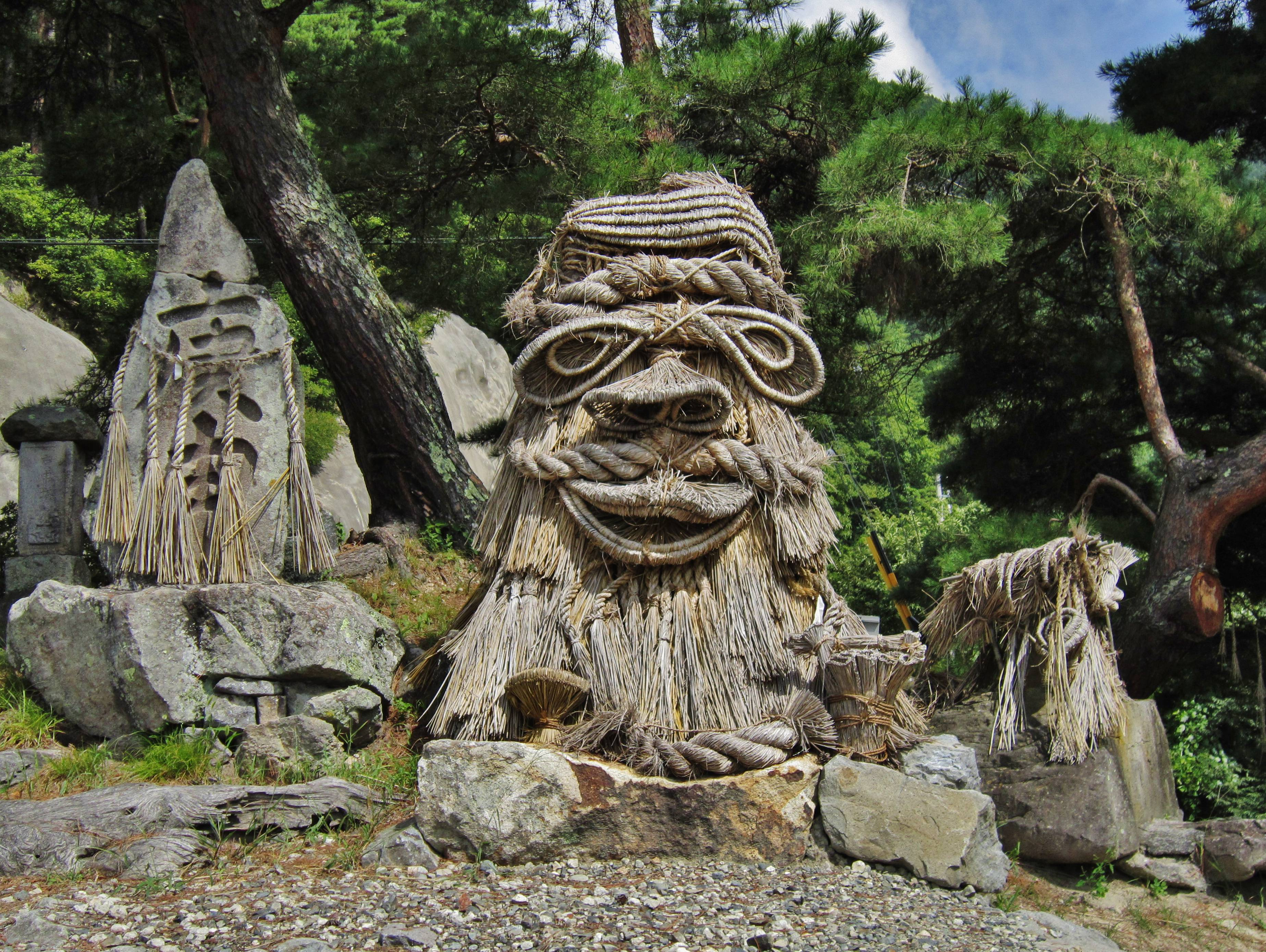 Ashinoshiri Dōsojin (Ōoka, Nagano).